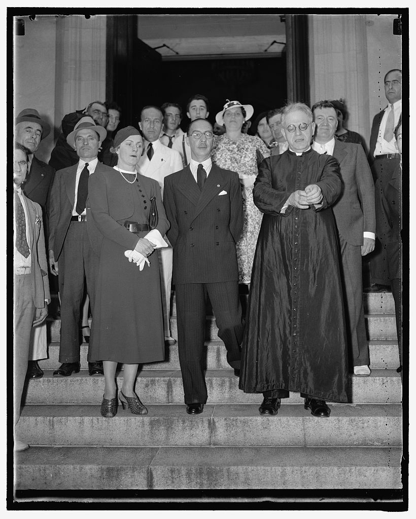 Title: Italian Ambassador attends memorial services for Marconi. Washington D.C. July 24. The Italian Ambassador and Senora Fulvia Suvich leaving Holy Rosary Catholic Church today after attending a requiem mass in honor of the late Guglielmo Marconi, Father of Wireless. Rev. Nicholas De Carlo, who conducted the service is shown with the Ambassador and his wife. 7/24/37 Abstract/medium: 1 negative : glass ; 4 x 5 in. or smaller